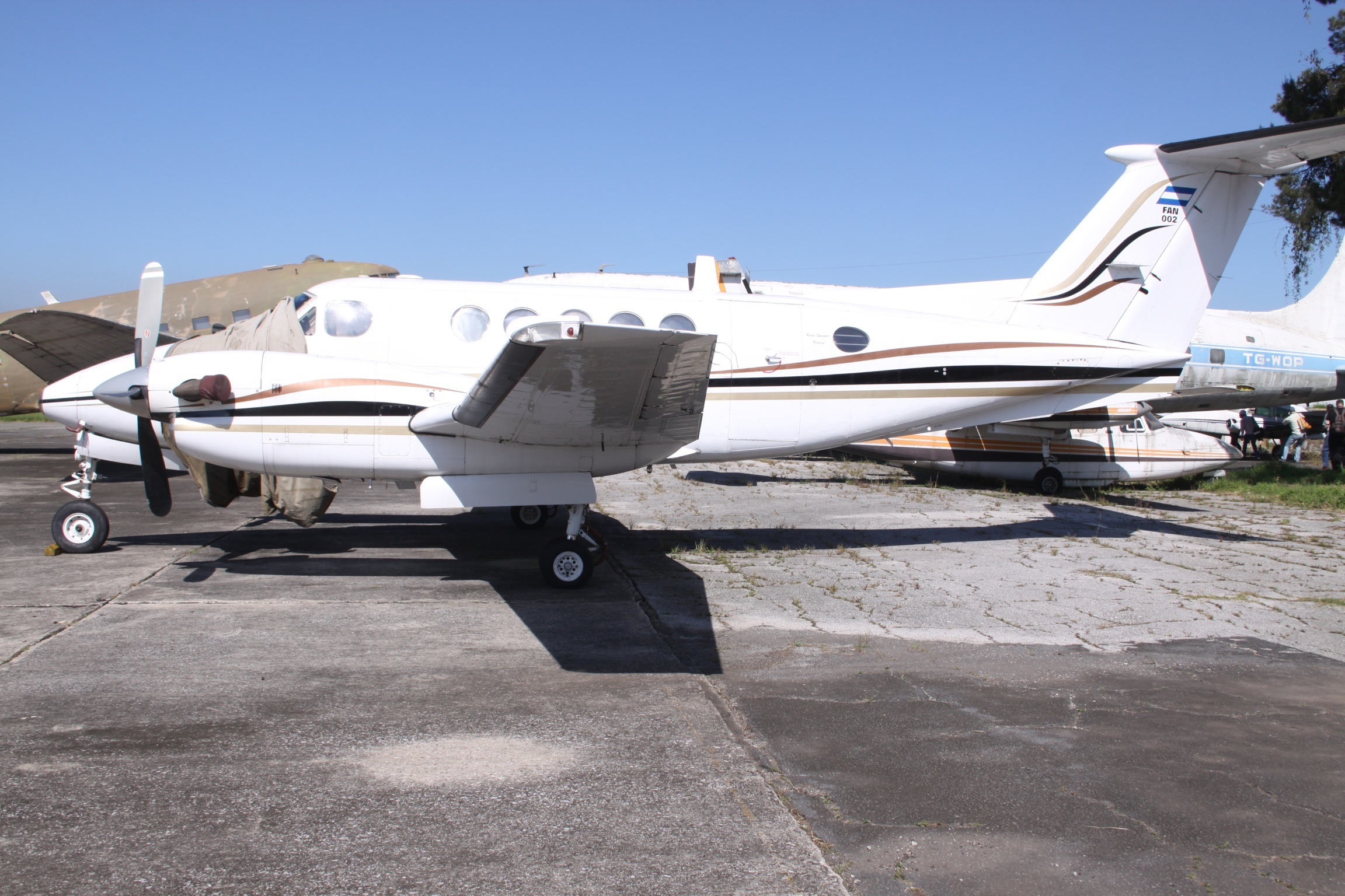 At Guatemala La Aurora International